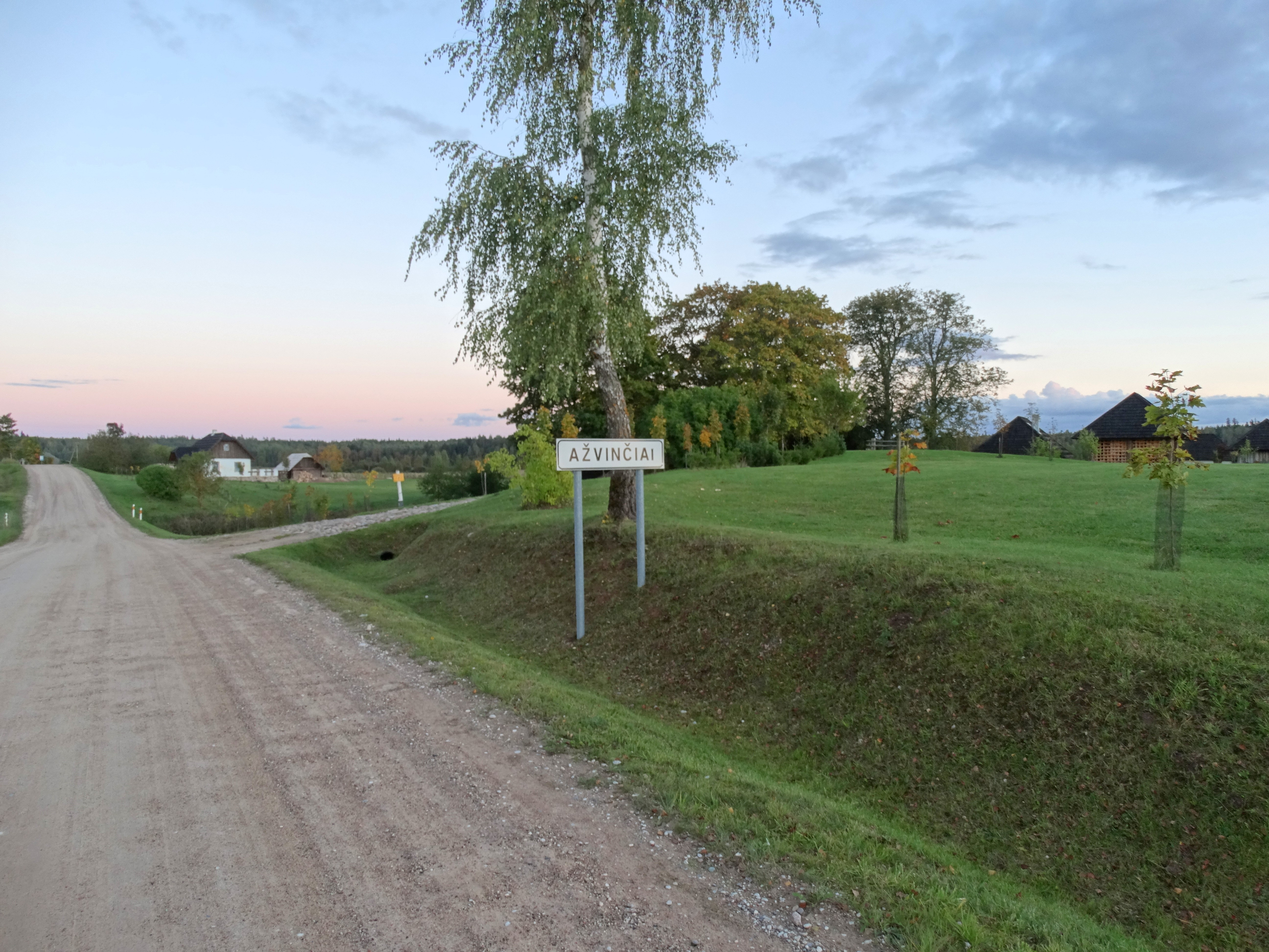 Ažvinčiai, Ignalina district, Lithuania